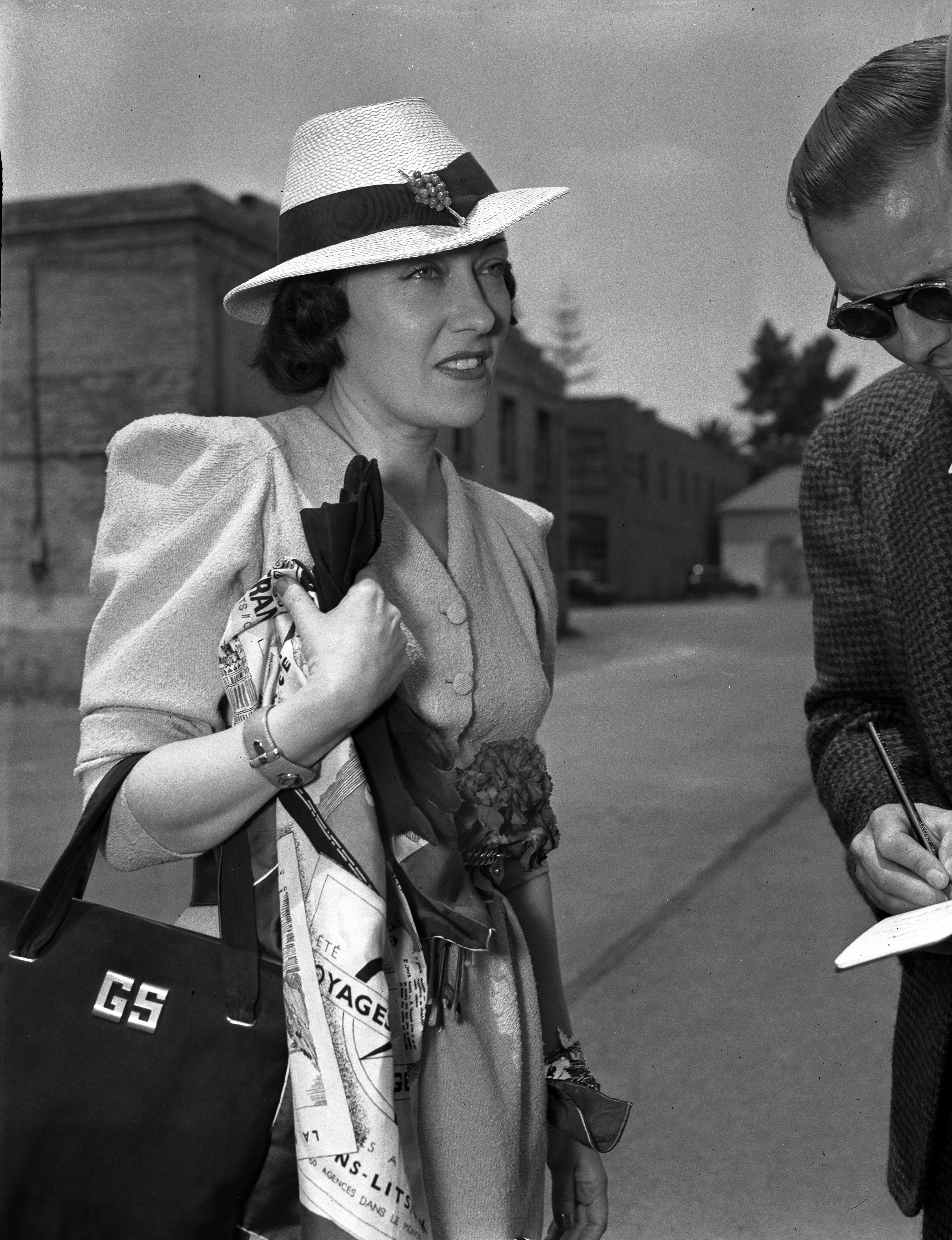 Arriving from England, actress Gloria Swanson talks to reporters as she arrives in Los Angeles, California in 1937.